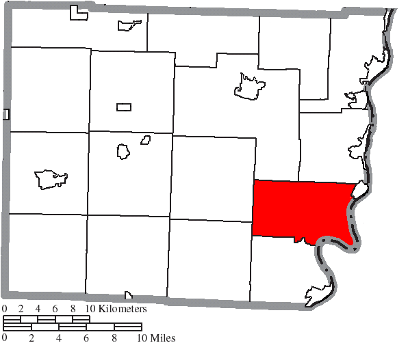 Map of the municipal and township boundaries of Belmont County, Ohio, United States, as of the 2000 census, with the location of Mead Township highlighted. Township borders are shown only in unincorporated areas in order to differentiate incorporated and unincorporated areas more clearly.